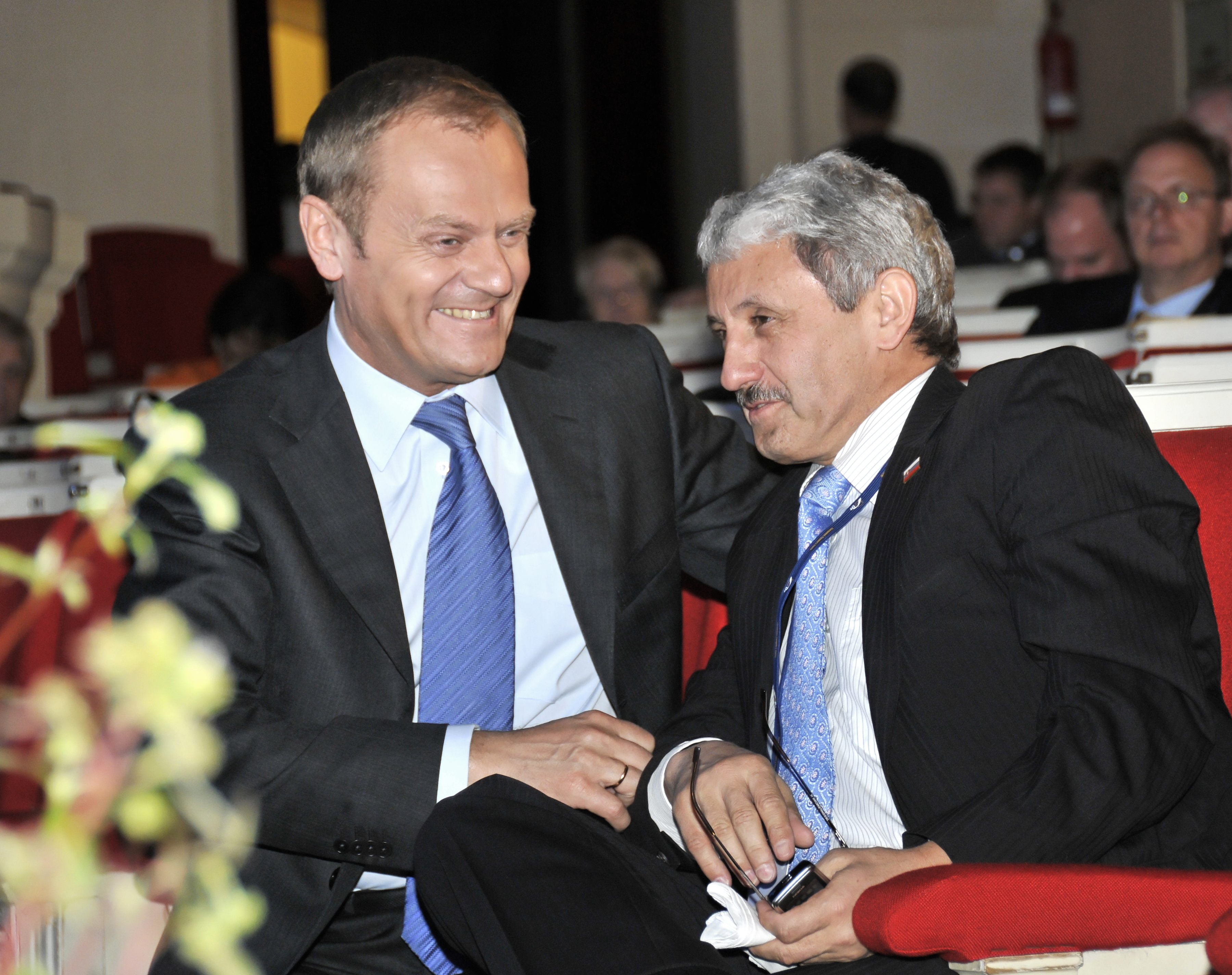 EPP Congress Warsaw